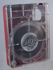 The fidelipac tape cartridge system